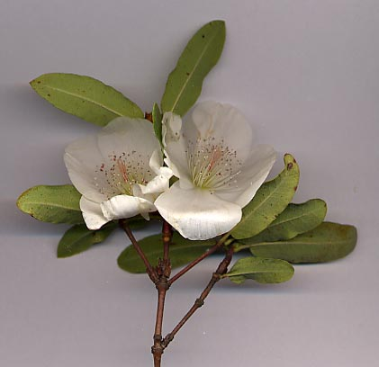 Image of Eucryphia × intermedia